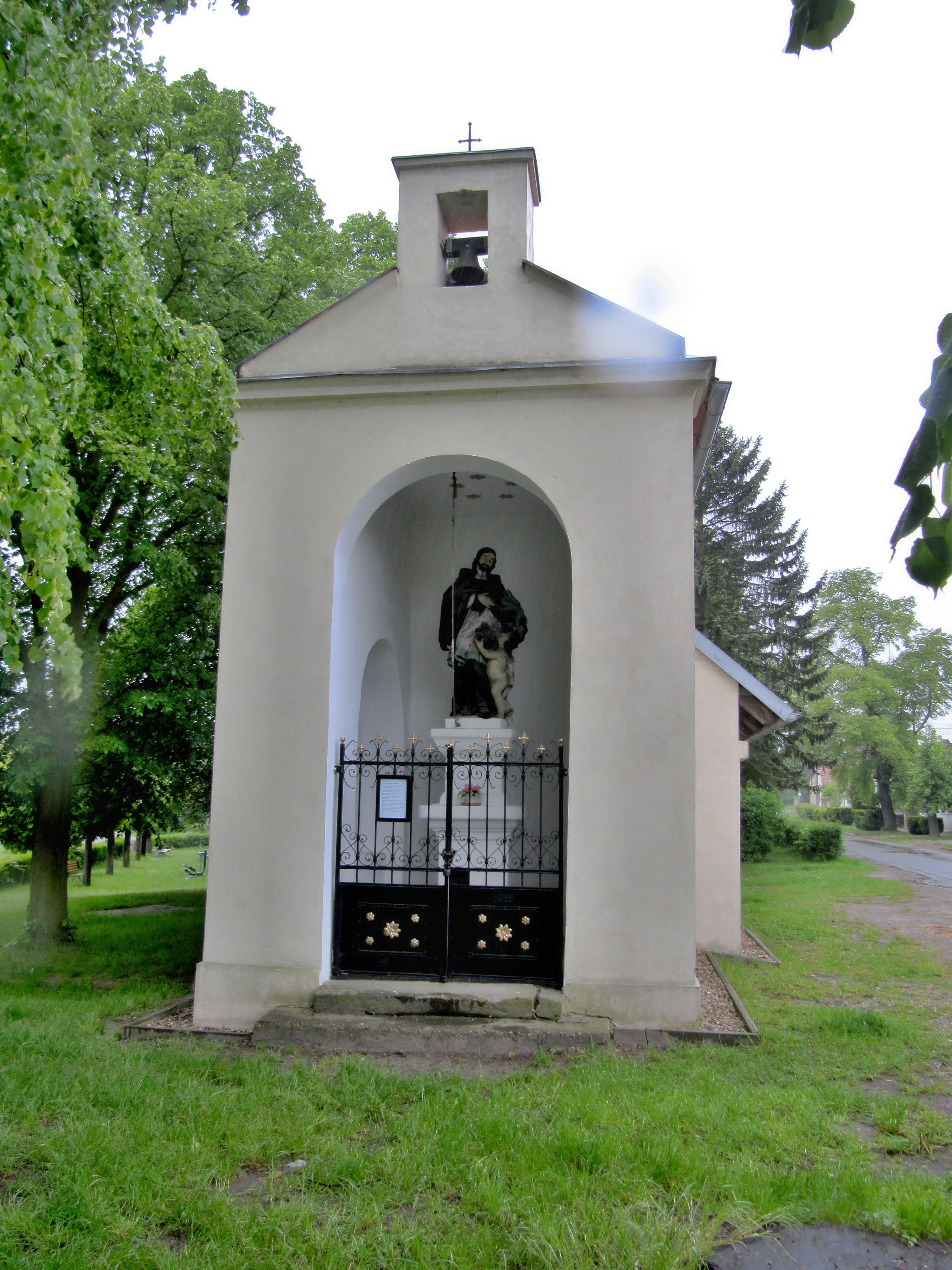 Milovice, Nymburk District, Czech Republic, part Benátecká Vrutice. Chapel of St. John of Nepomuk from 1846.